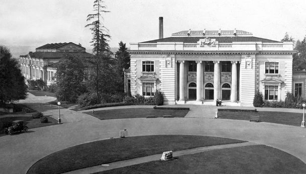 This view of the Washington State Building was probably photographed before the gates of the 1909 Alaska-Yukon-Pacific Exposition were opened.